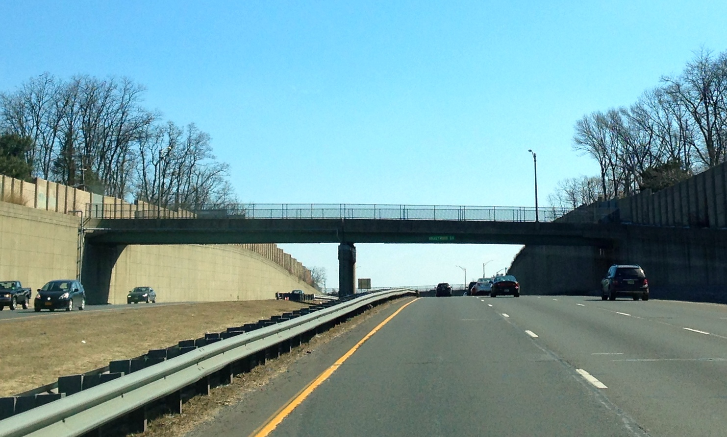 An overpass to nowhere of New Jersey Route 24 at Brantwood Drive, Summit, New Jersey that is walled off on both ends.